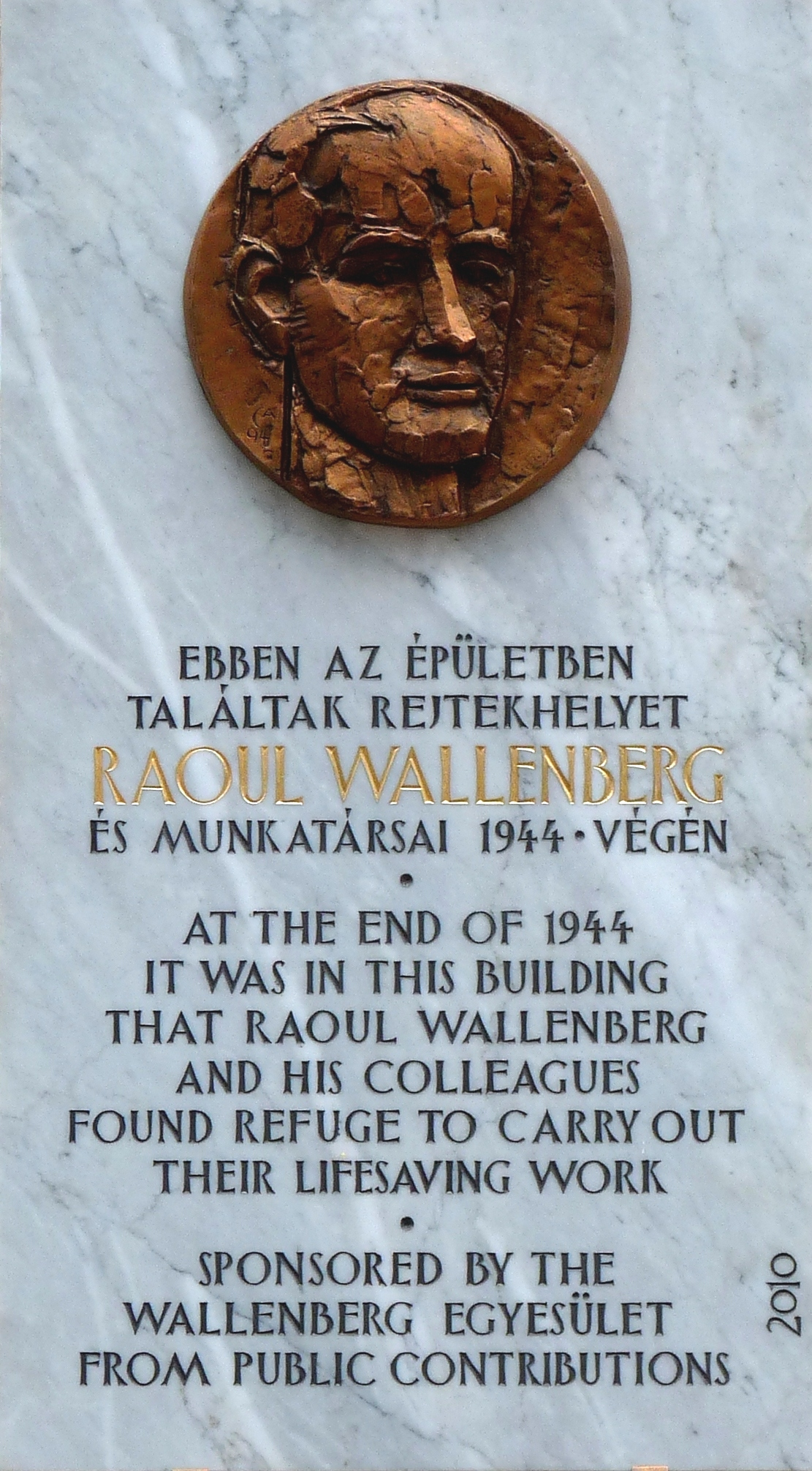 Commemorative plaque to Mr. Raoul Wallenberg (1912-1947?), Swedish diplomat who worked in Budapest, during World War II to rescue Jews from the Holocaust. This plaque was affixed to the wall of the former British Embassy in Budapest October 15, 2010, the building where Wallenberg and his colleagues found refuge at the end of the year 1944. Author of the bronz relief: Antal Czinder. (Budapest, District V, Harmincad Street Nr 6).